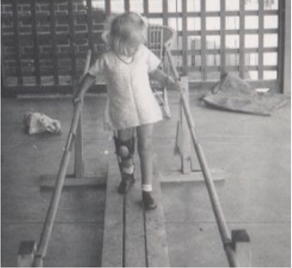 Walking with the parallel bars